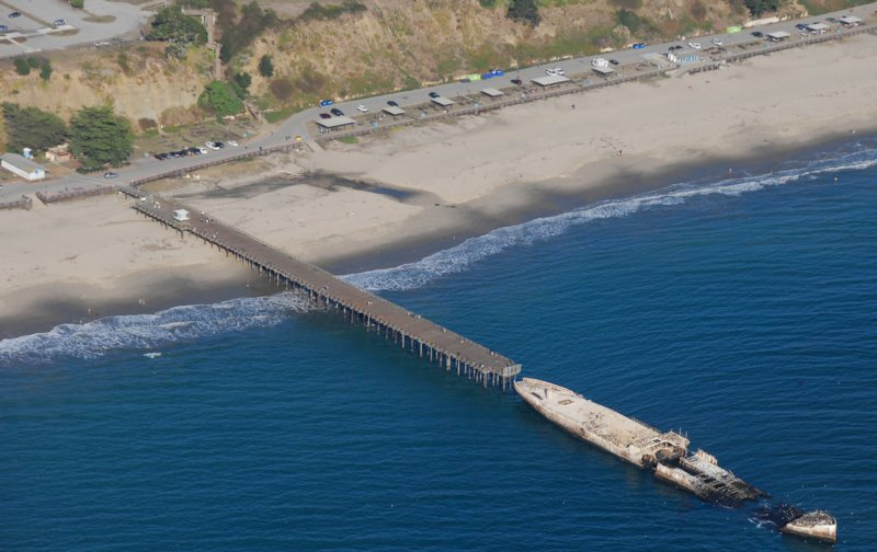 SS Palo Alto was a concrete ship built as a tanker, launched on 29 May 1919, mothballed until 1929, towed to Aptos, California. A pier was built leading to the ship, and she was sunk and refitted as an amusement ship. Eventually she became unsafe and was closed to the public, and now serves as an artificial reef for marine life.